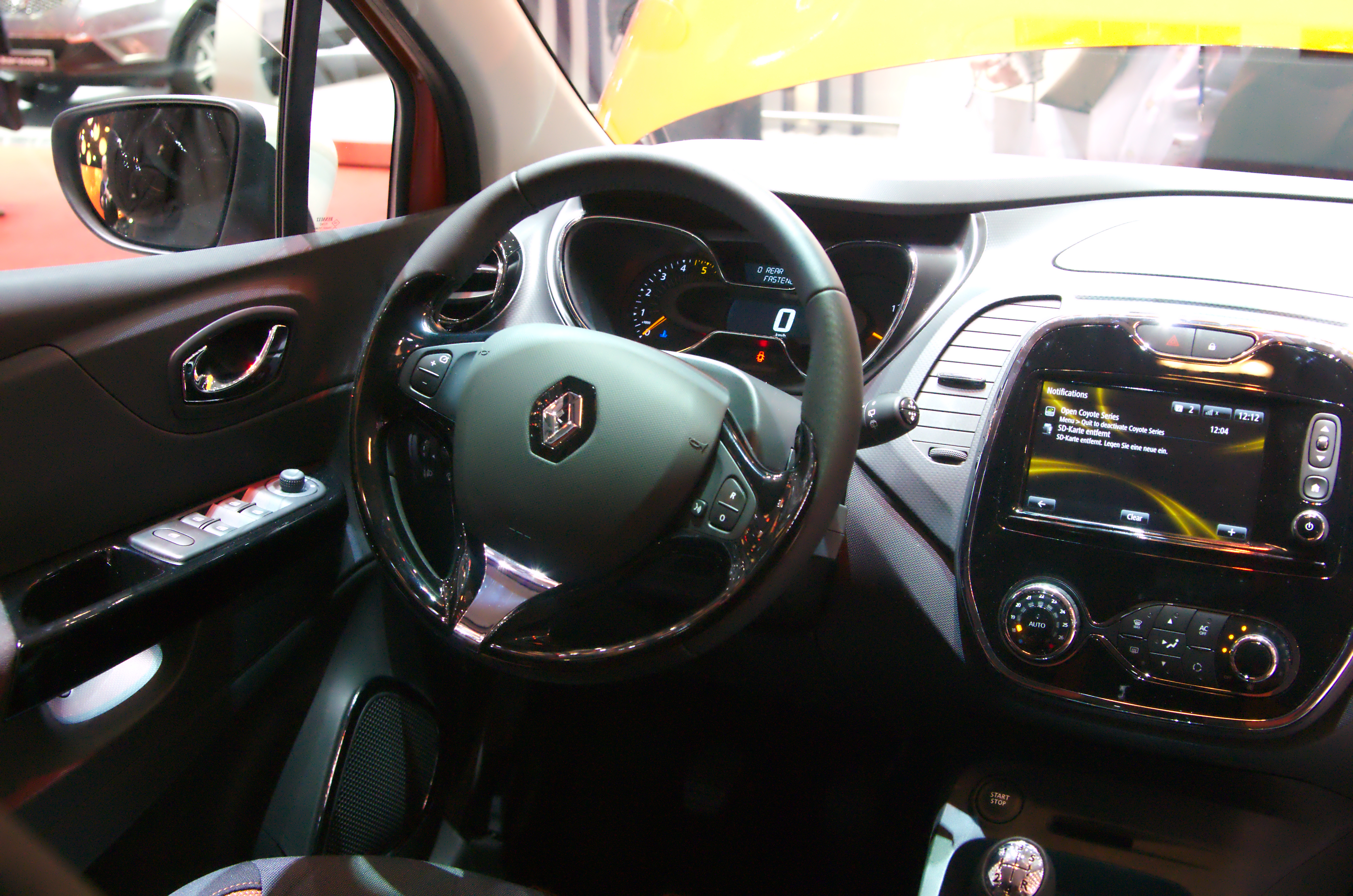 Geneva MotorShow 2013 - Renault Scenic XMod steering wheel